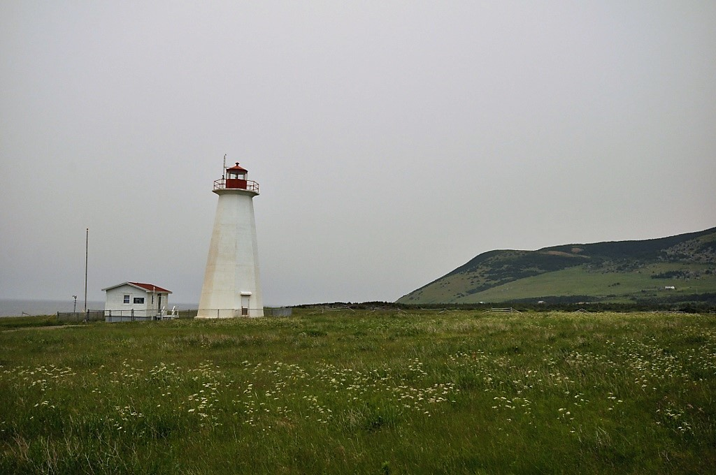 Cape Anguille Light Tower, Cape Anguille, Newfoundland.